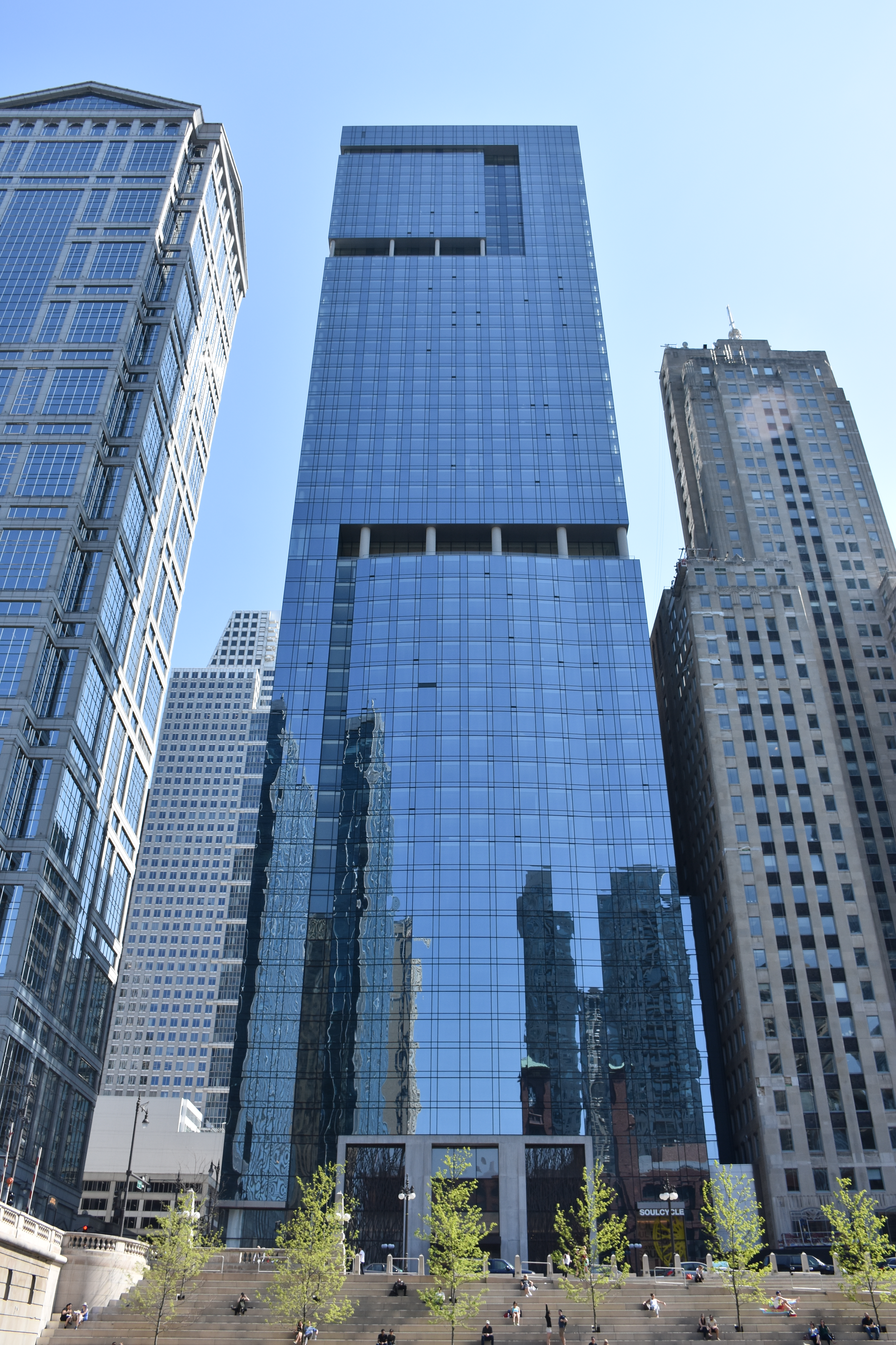 OneEleven building, Chicago in May 2016